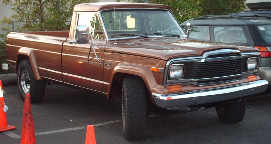 Jeep J20 photographed in Montreal, Quebec, Canada at Gibeau Orange Julep.